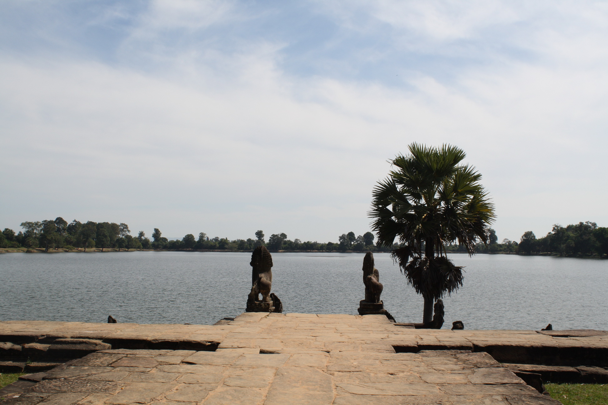 West Baray, Angkok, Cambodia